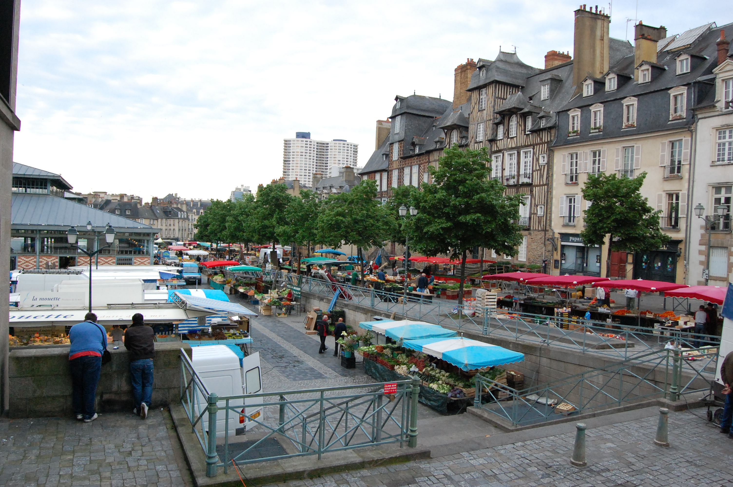 Implementation of the market of Lices